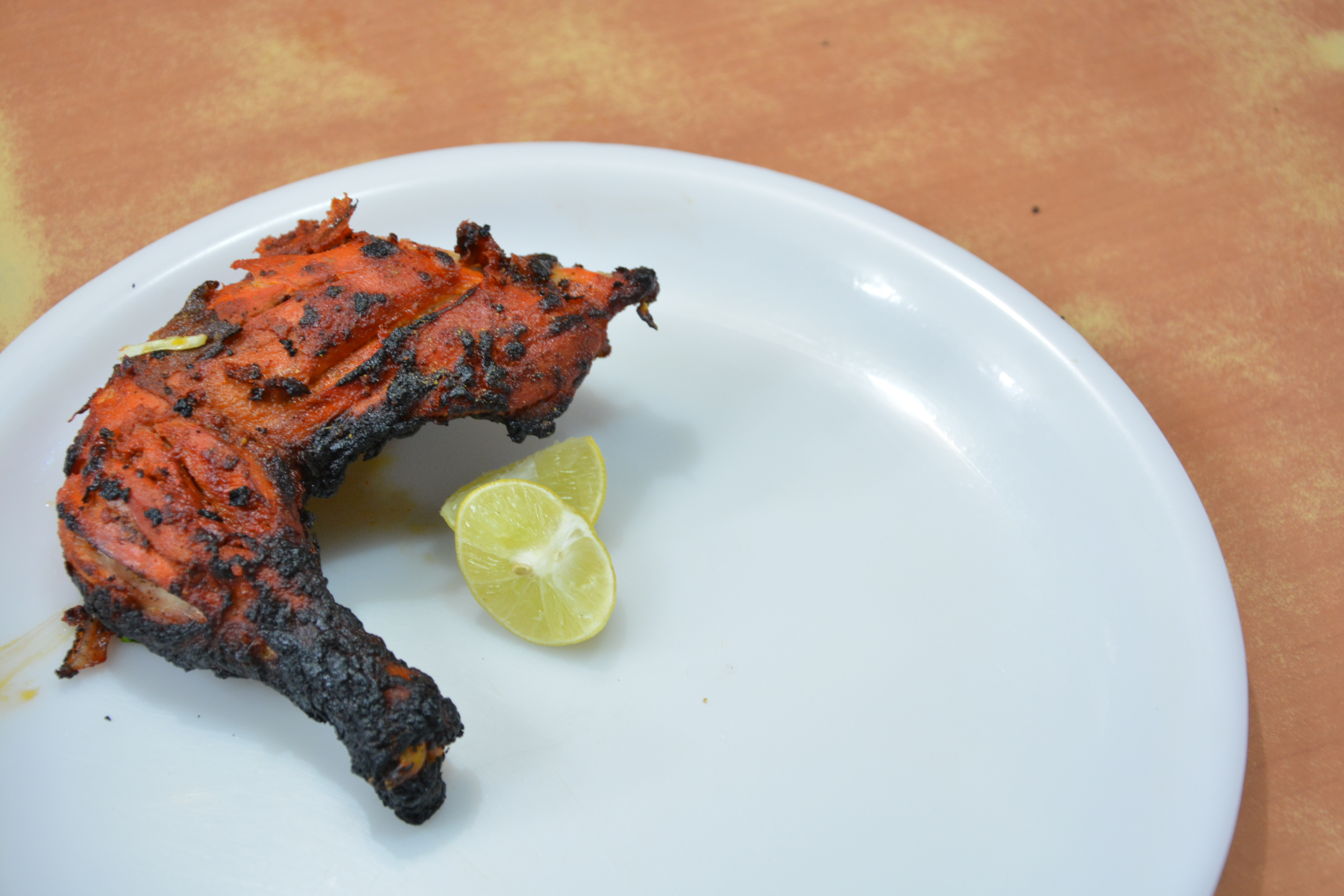 Tandoori chicken from the Indian subcontinent: Roasted chicken with lemon juice sprinkled on top, this yummy delicacy is loved by almost all non-vegetarians in this part of the world.